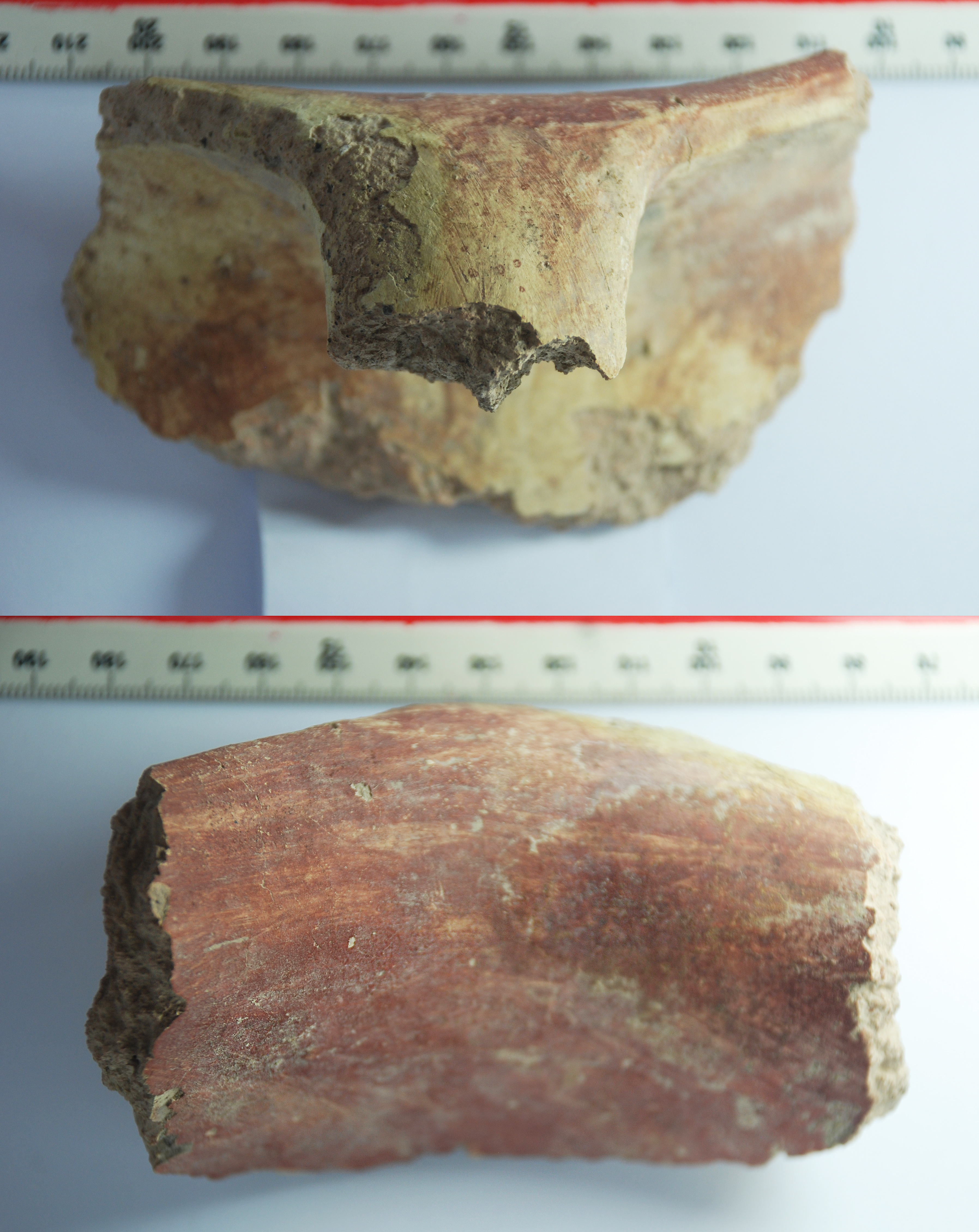 Pottery fragment found in Balkin Tepe, Malard, Shahriyar, Tehran, 7 Aug 2015